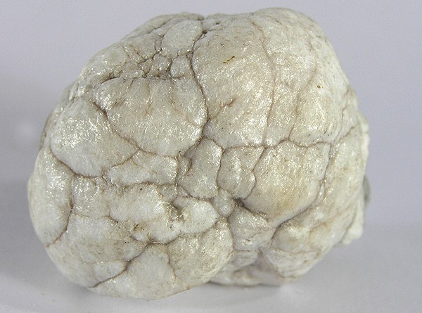 Howlite Locality: Wentworth area, Hants County, Nova Scotia, Canada (Locality at ) Size: 4.1 x 2.5 x 2.5 cm. A nodule of howlite, (Calcium Boro-silicate Hydroxide), from Nova Scotia, where the first specimens were described (it is named for its discoverer Henry How, a Nova Scotia geologist). Howlite is probably best known (unfortunately) for being dyed to very closely resemble turquoise, which often fools the unwary. However, here we have the color as it should be, in an unusually fine nodule complete all around. This specimen was in the Carlton Davis collection.